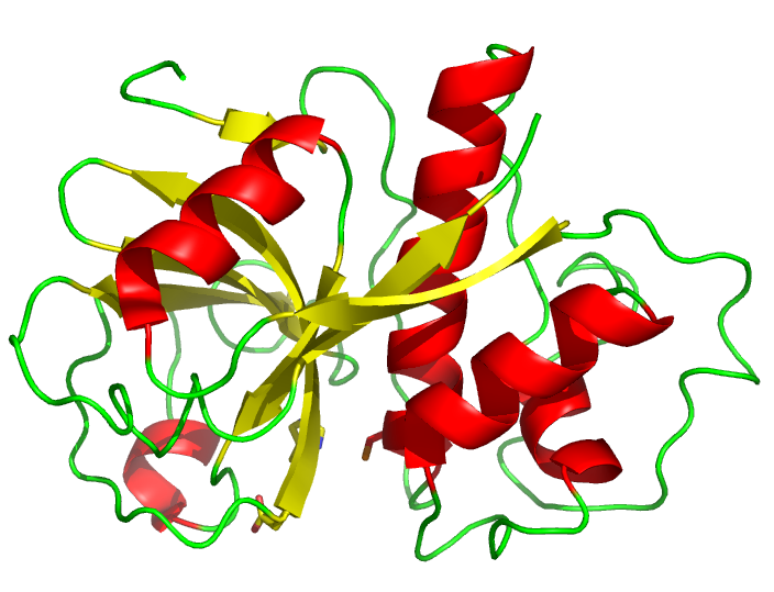 Original summary: "i created it from PDB: 1PPP using PyMol and Photoshop."